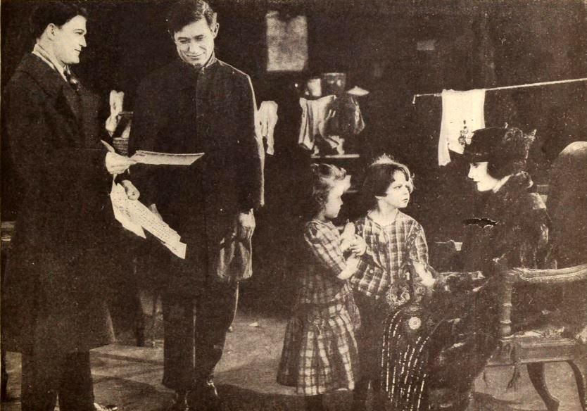 Still from the American film A Poor Relation (1921) with Will Rogers, Wallace MacDonald, and Sylvia Breamer, and child actors Robert DeVilbiss and Jeanette Trebaol, on page 37 of the November 1921 Photoplay.